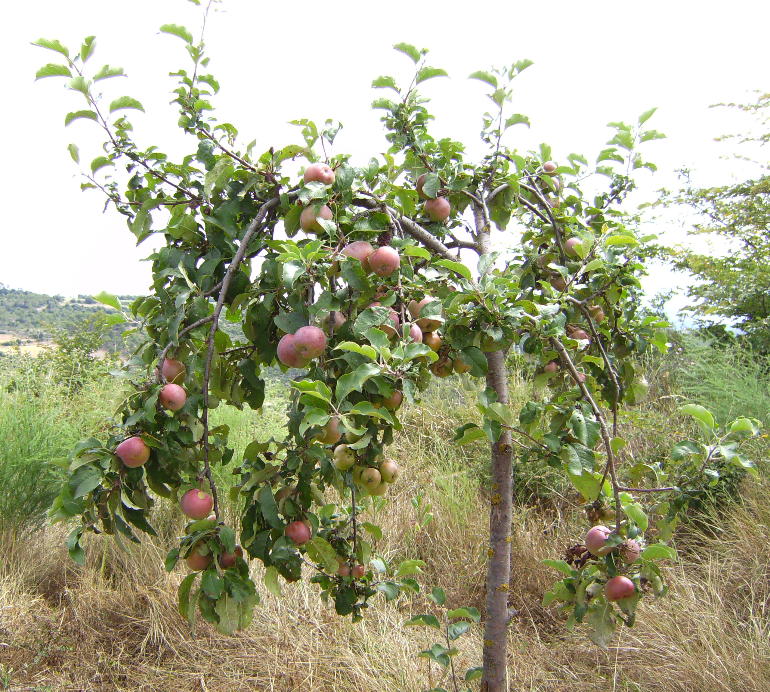 Apple tree with apples, Castelltallat, Catalonia